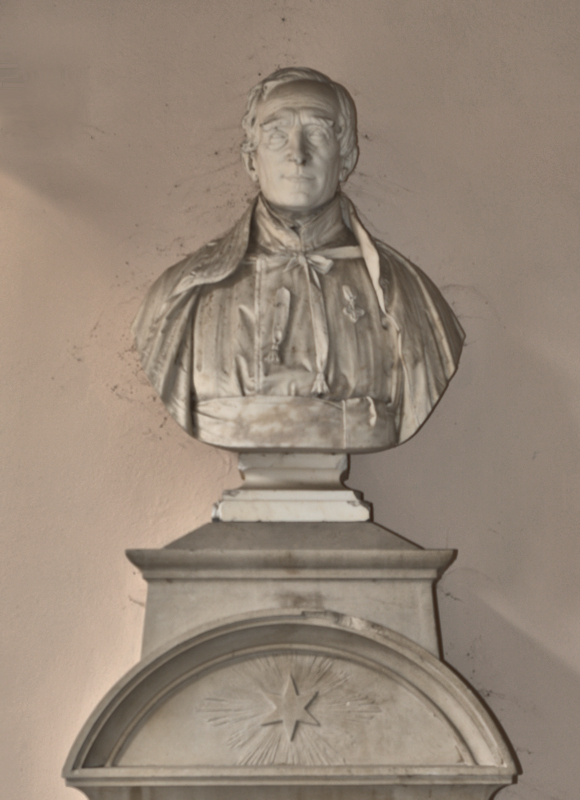 Bust of the barnabite religious Giovanni Maria Cavalleri at the Palazzo Pretorio in Crema (Italy)